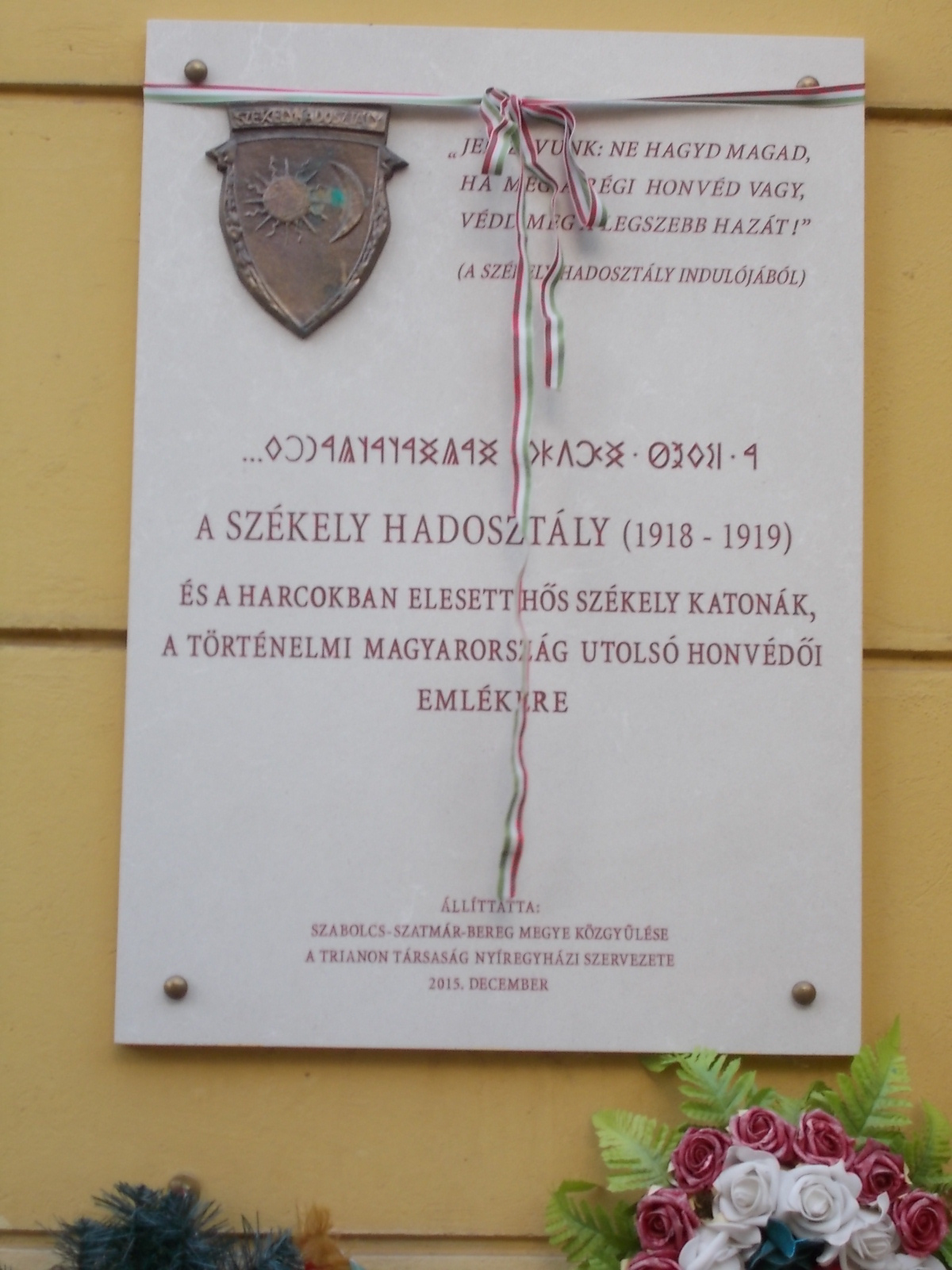 County Hall, southern wing with plaque of the Székely Division, decorated with a small Bronze badge of the Division. About the building: Listed, groundfloor + one-storey, Eclectic style, built in 1891-1892, by Ignác Alpár plans. - 5 Hősök Square, Nyíregyháza, Szabolcs-Szatmár-Bereg County, Hungary.